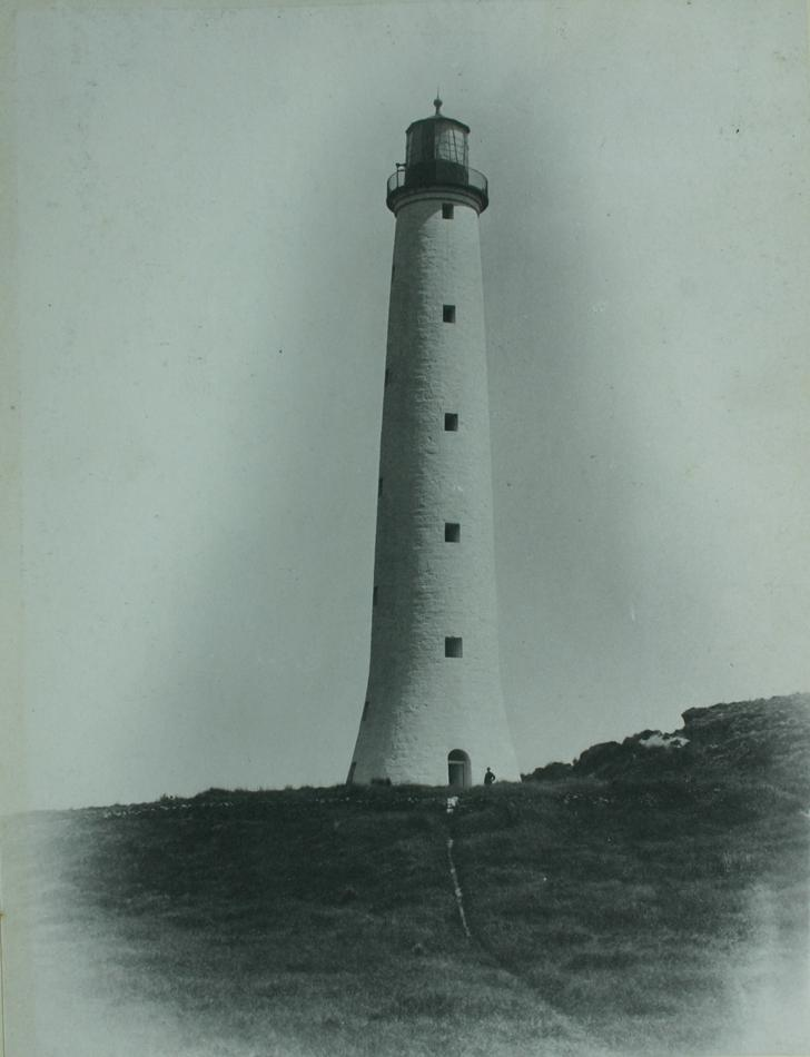 Photograph of the Cape Wickham Lighthouse, King Island, off the coast of Tasmania.